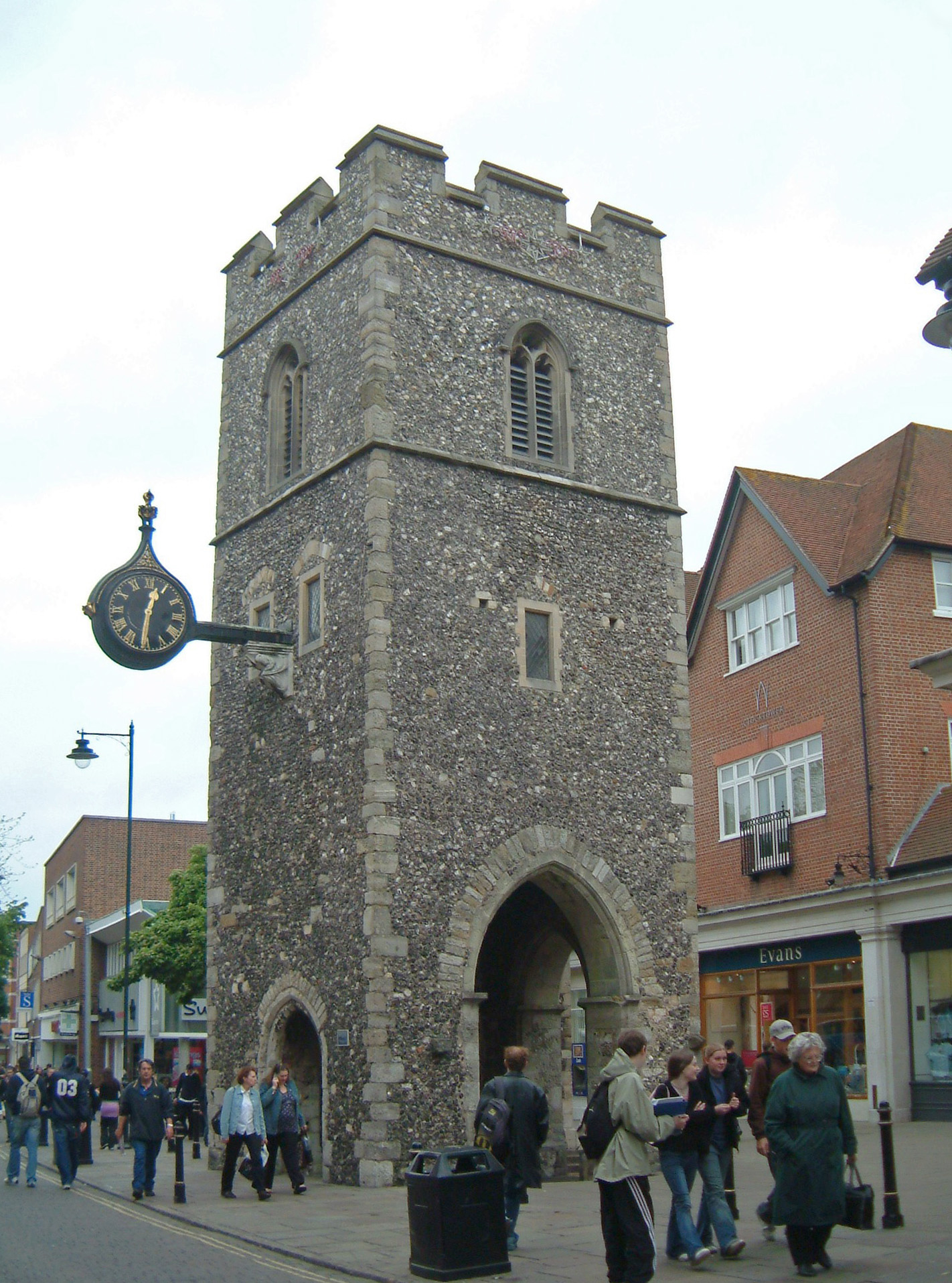 Canterbury - Tower of St. George's Church, where Christopher Marlowe was baptized